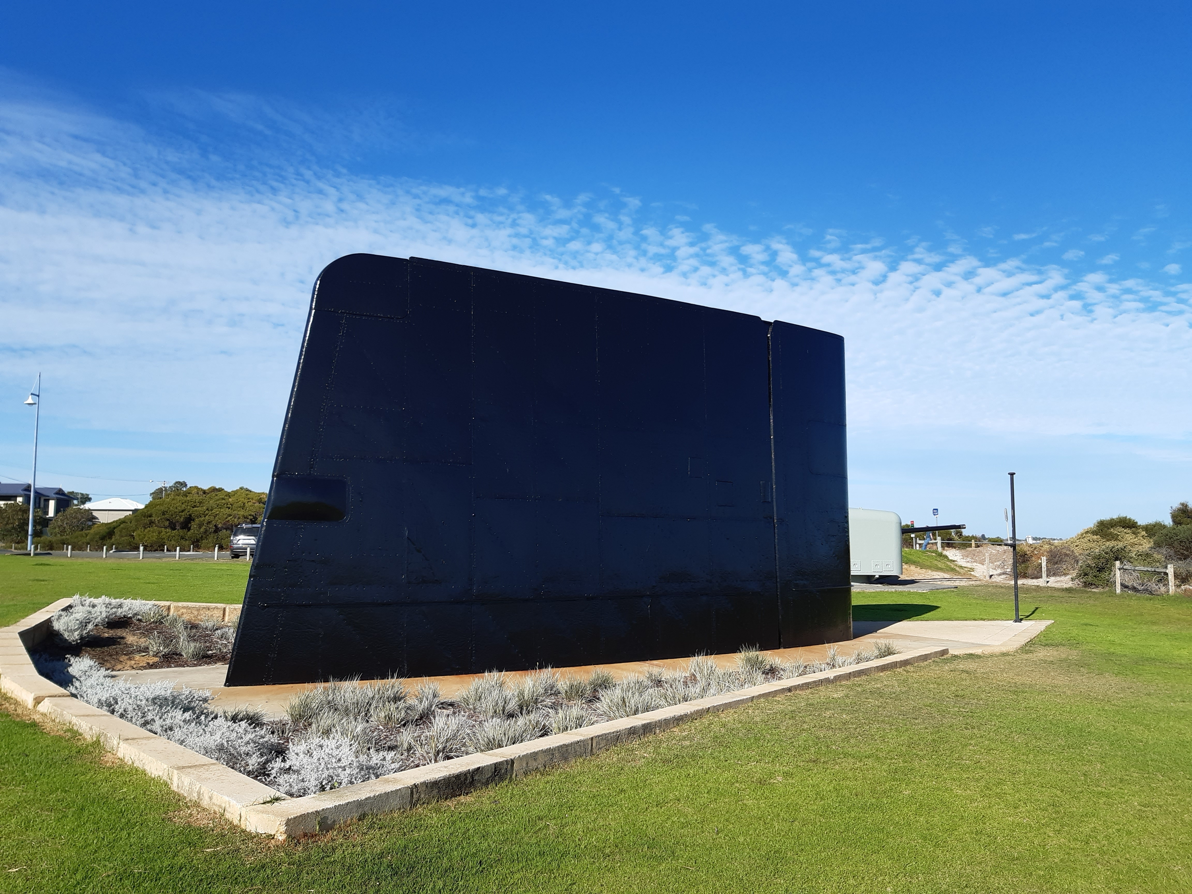 HMAS Orion memorial, Rockingham Naval Memorial Park, Western Australia. The memorial was recently repainted.